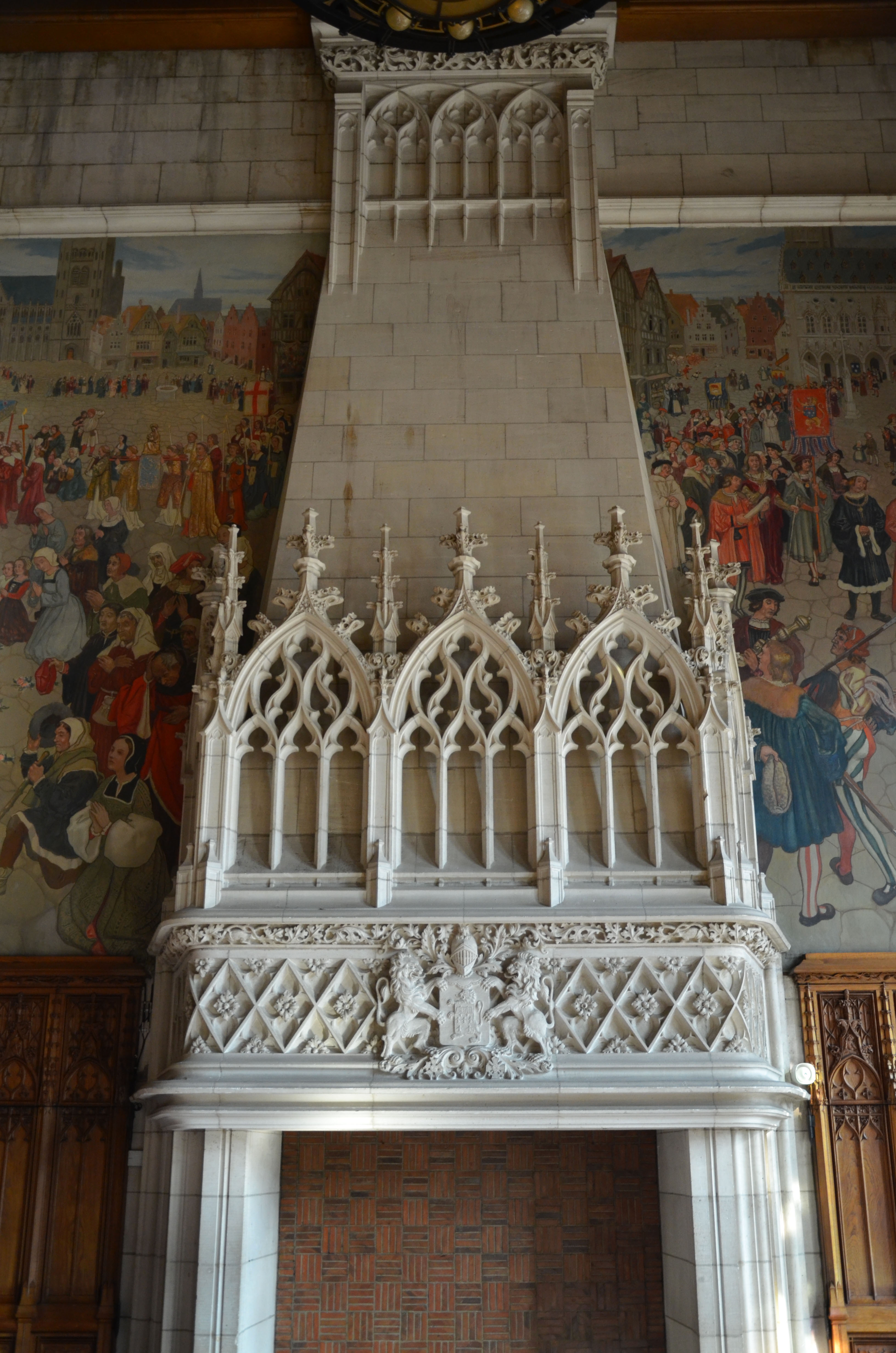 Large fireplace in the hall of the belfry of Arras (north of France, Nord-Pas-de-Calais Region)